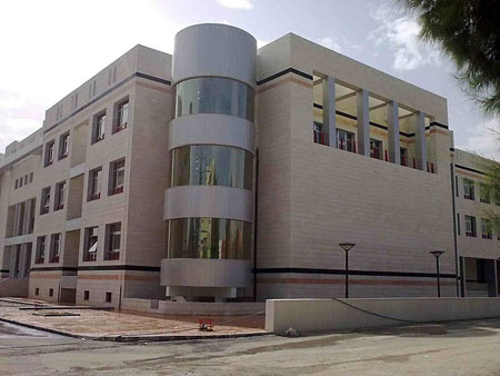 A shot for the Faculty of Information Technology Engineering in Damascus University, Taken by one of its students